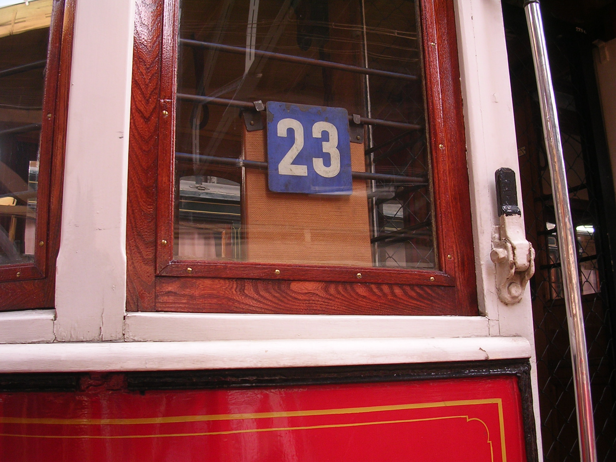 Střešovice, Prague, the Czech Republic. Historical tram.